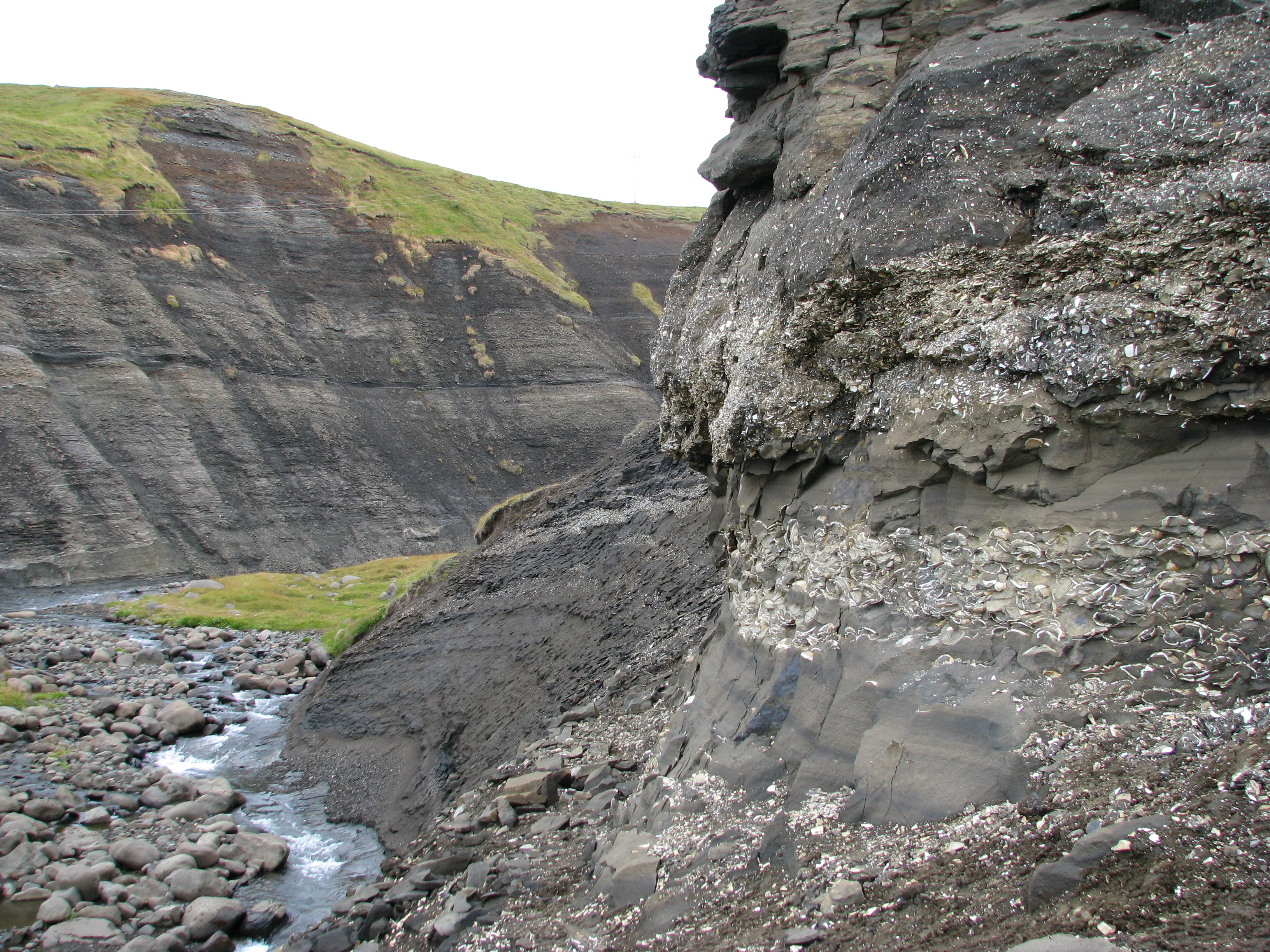 Hallbjarnastadaá, river, Tjörnes, fossile, Iceland